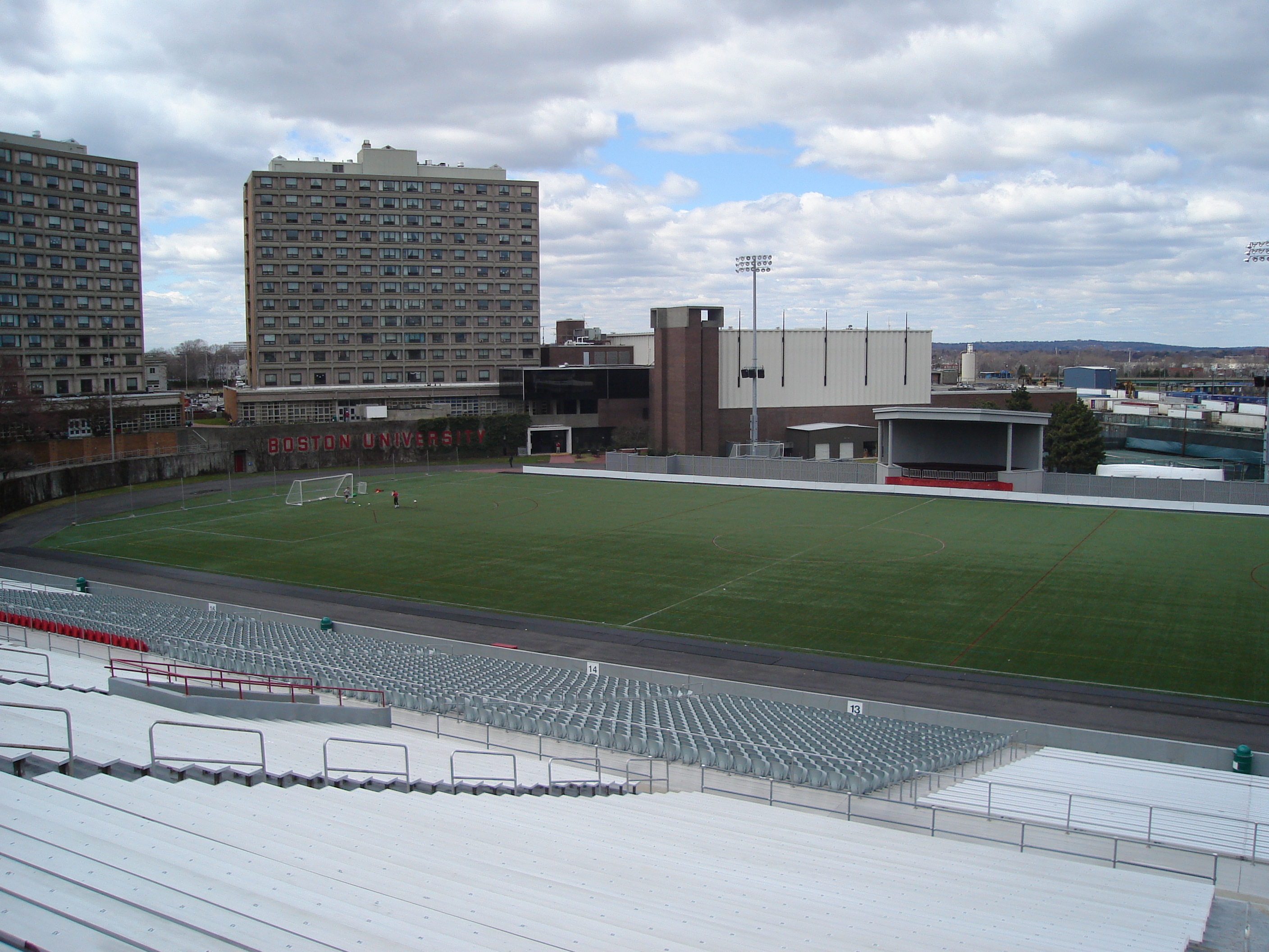 Boston University's Nickerson Field